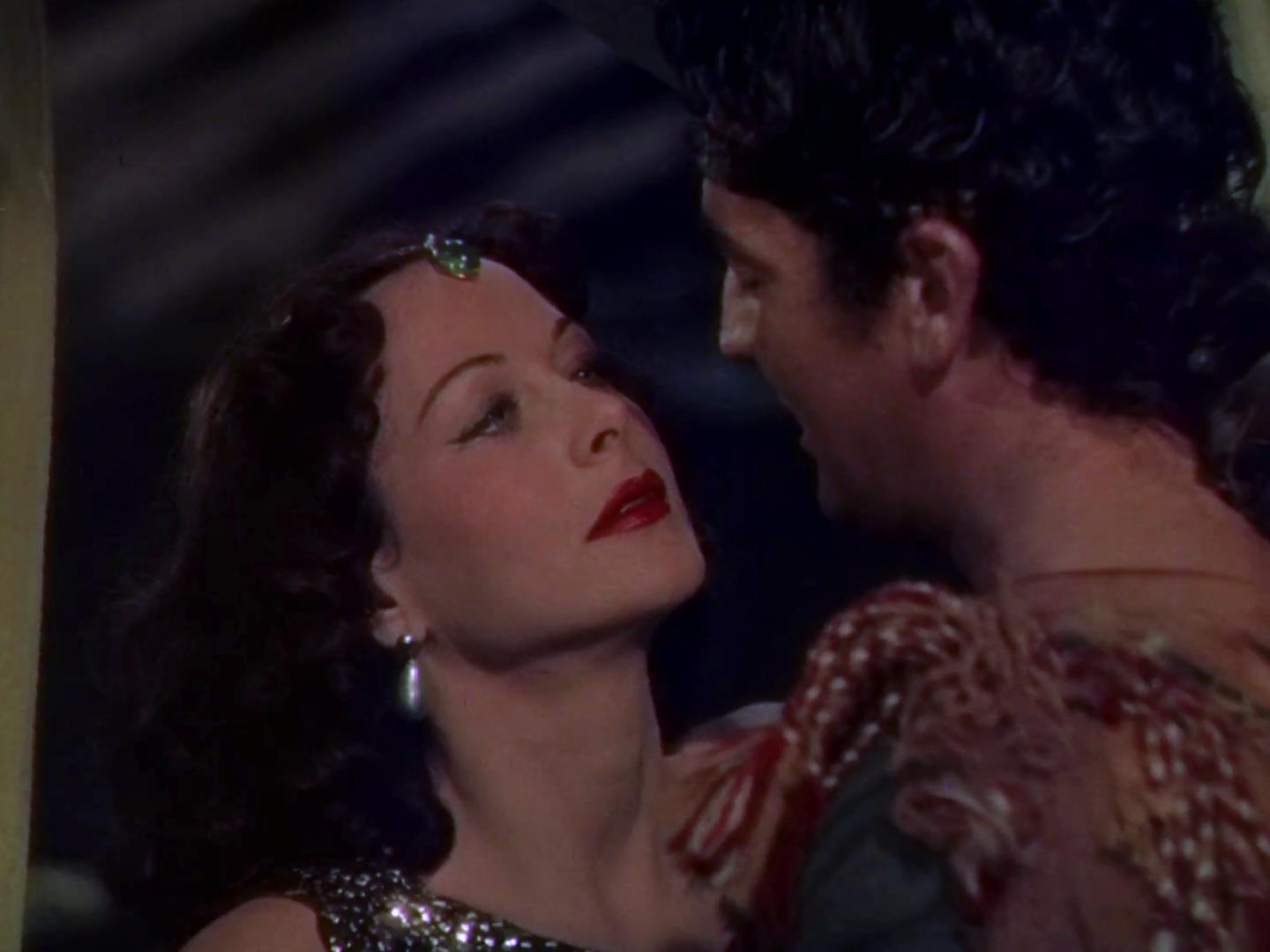 Screenshot of Hedy Lamarr from the trailer for the film Samson and Delilah.